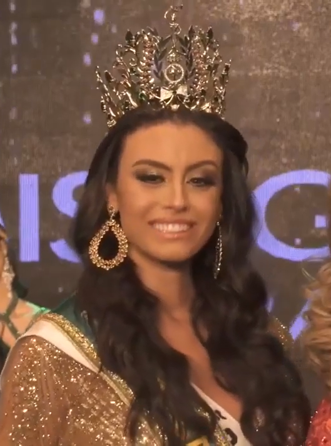 Marjorie Marcelle, , screen capture from video of Y Entertainment Channel on Youtube.